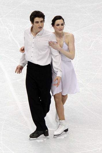 2010 Winter Olympics figure skating - Tessa Virtue and Scott Moir